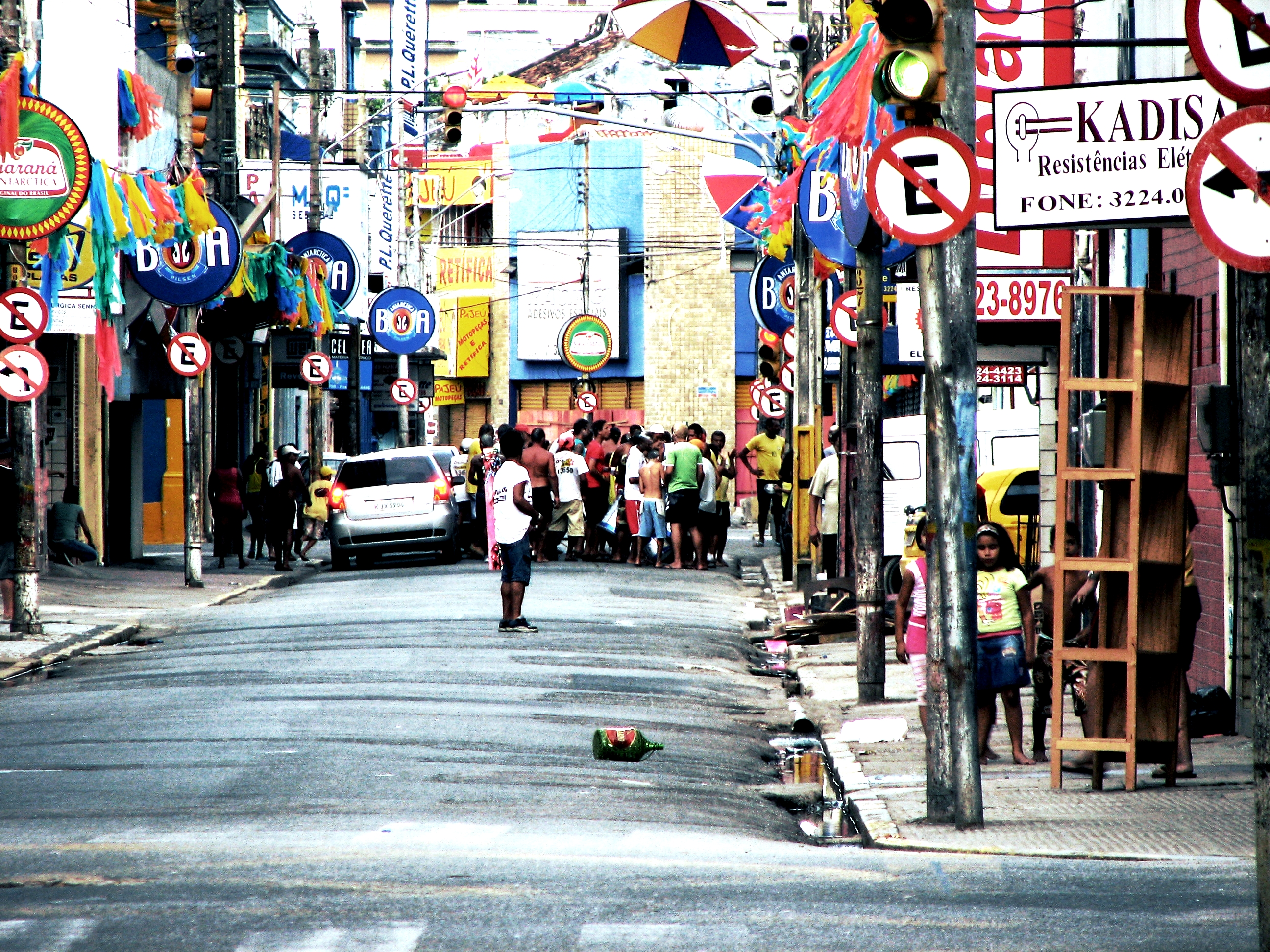 A bloco in Recife at the day after the last day of carnival (still a holiday, Quarta-feira de cinzas)The carnival hasn't end